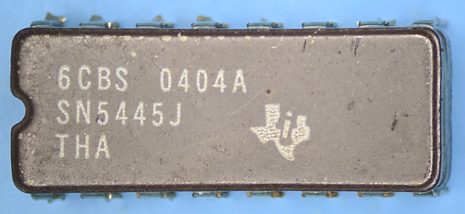 Package top of a Texas Instruments 5445 chip, datecode 0404.